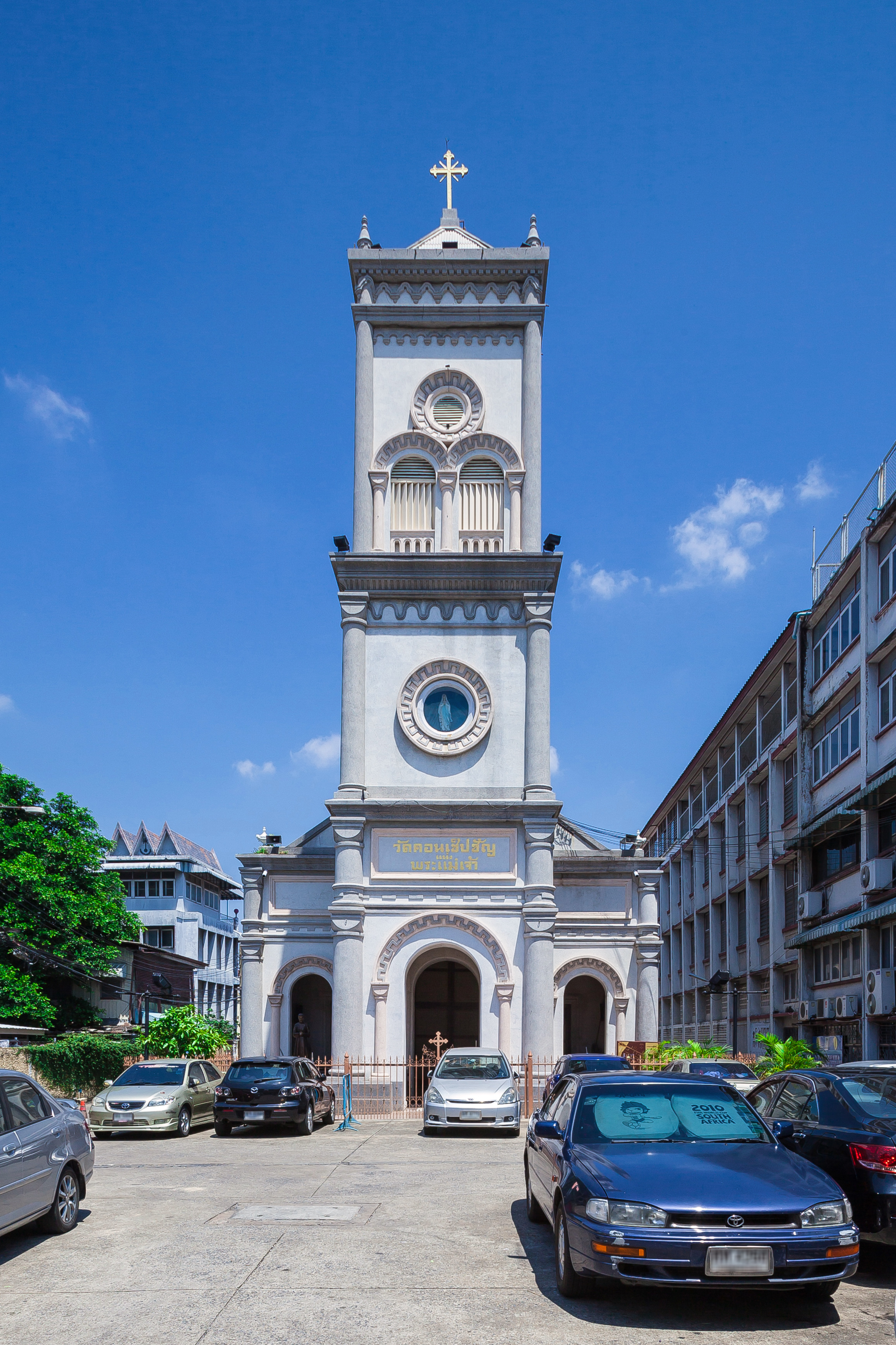 Conception Church, Bangkok.